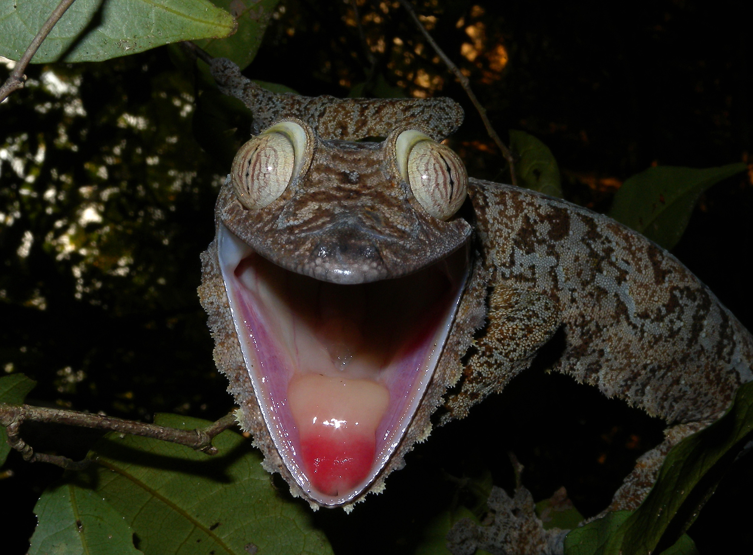 The Giant Leaf-tailed Gecko (Uroplatus fimbriatus) is easily observed on the island of Nosy Mangabe in the Bay of Antongil off Maroansetra. When alarmed, it opens its mouth largely, displaying its brilliant orange-red interior, presumably as a mean to deter predators.